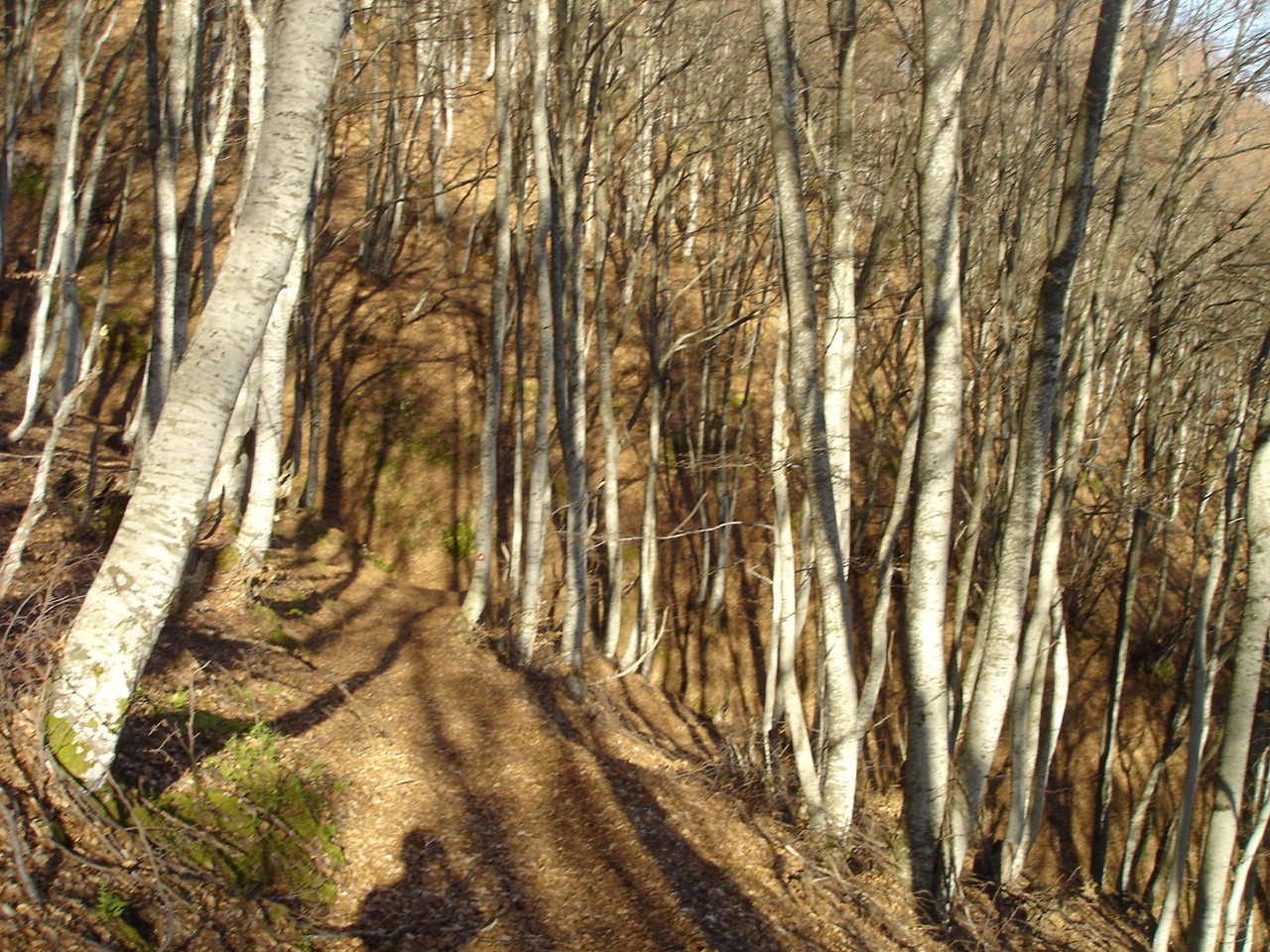 Beech forest on Plackovica Mountain, Macedonia